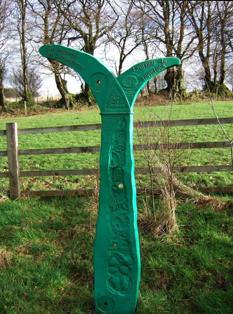 NCN sign on the Granite Way A National Cycle Network sign on route 27, placed beside a concrete shelter at the side of the former Okehampton-Tavistock railway, on Battishill Down. Reluctant to say how far it is to Tavistock.